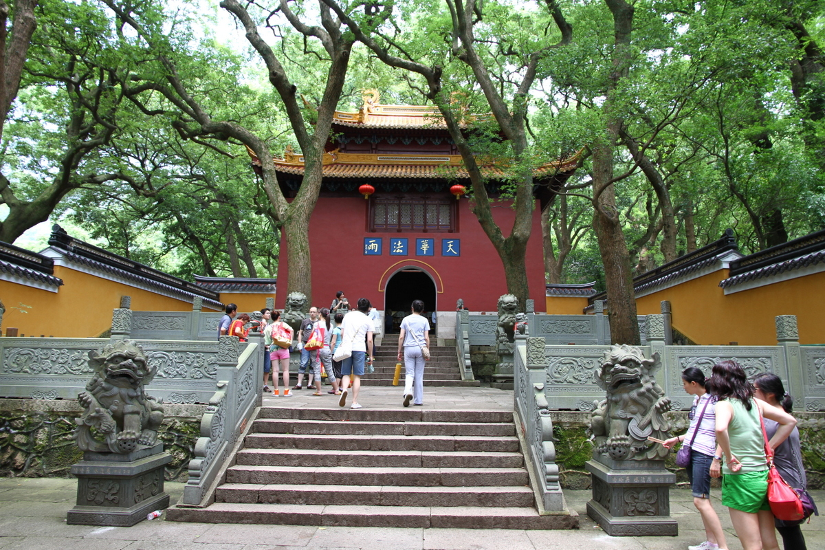 Entrance of Fayu Temple on Putuo Shan island in China